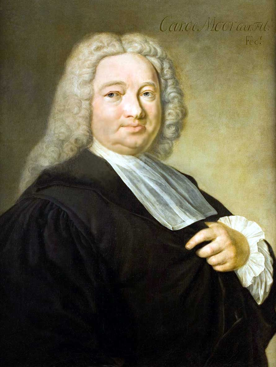 Joachimus Schwartz (1686-1759) german Lawyer